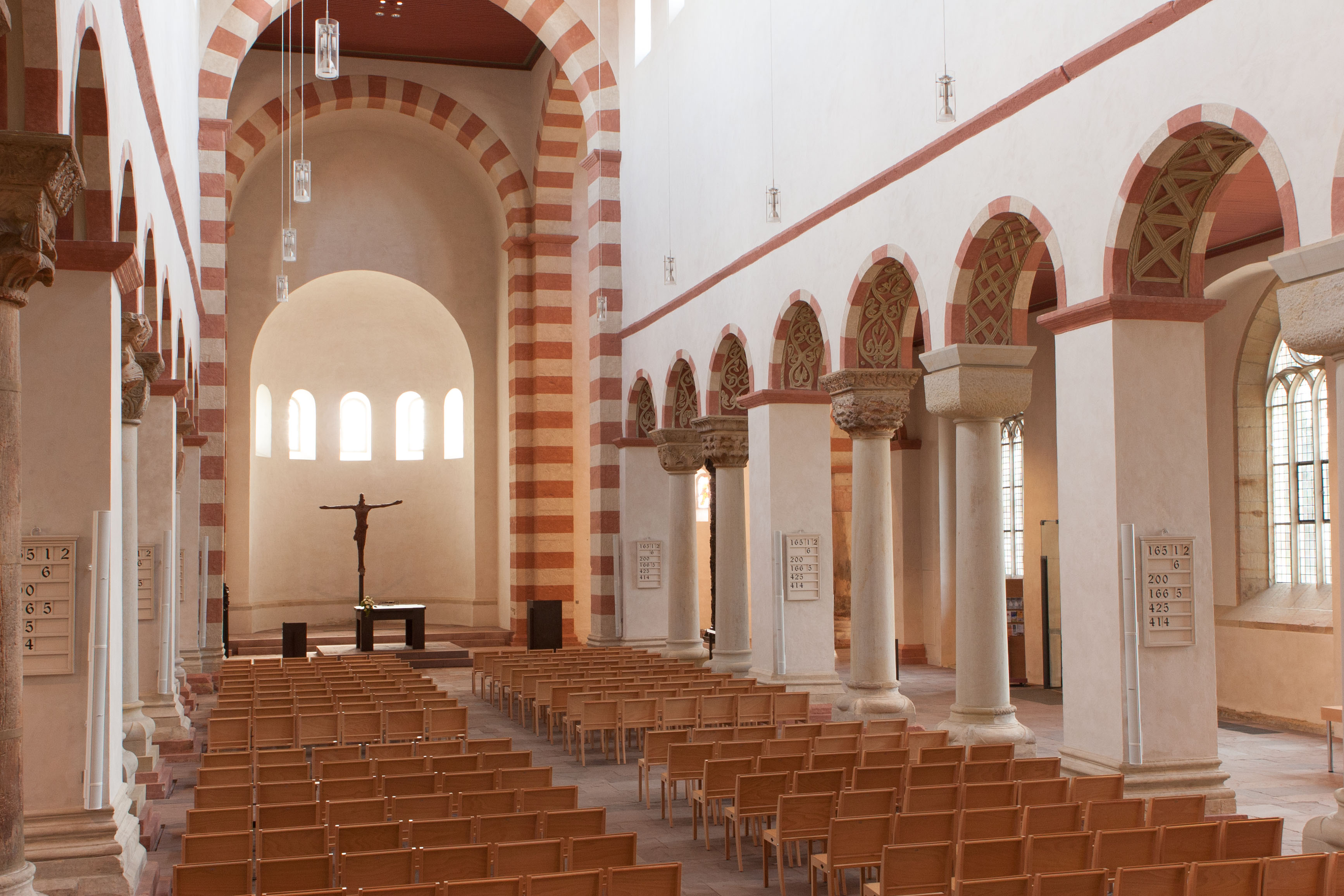 St. Michaels Church Hildesheim (Germany), interior